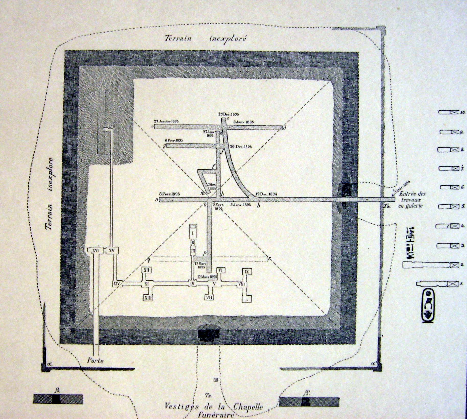 Plan du complexe funéraire d'amenemhat III à Dahchour. The tomb of pharaoh Hor is on the right, just above its cartouche.